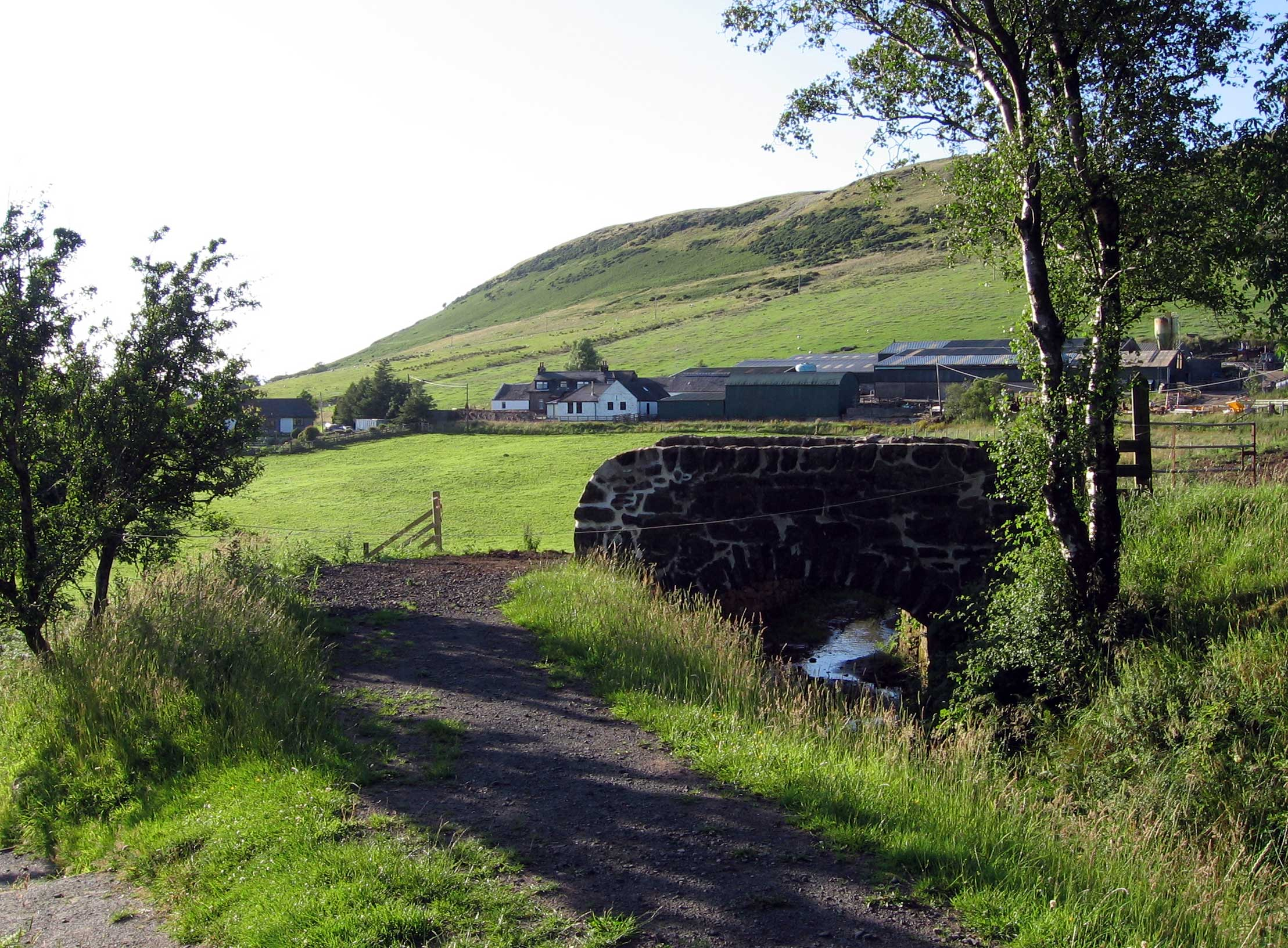 The Greenock Cut is a 7 mile (11 km) aqueduct completed in 1827 which carried water from a new reservoir formed at Loch Thom from its outlet at Cormalees Bridge Centre round the side of Dunrod Hill to Overton, Greenock|Overton where it was fed into a distribution network to supply the town of Greenock in Scotland, now in the District of Inverclyde. Grid reference NS242719